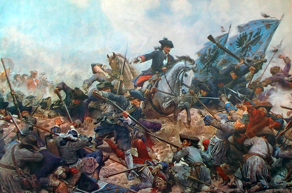 Battle of Turin, troops led by Prince of Anhalt charging the French positions